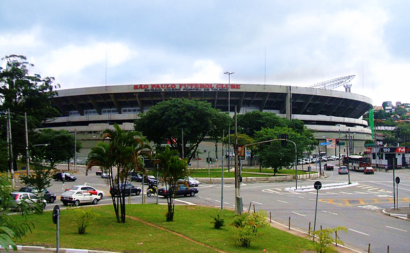 frontage photo of the Cícero Pompeu de Toledo stadium, known as Morumbi.